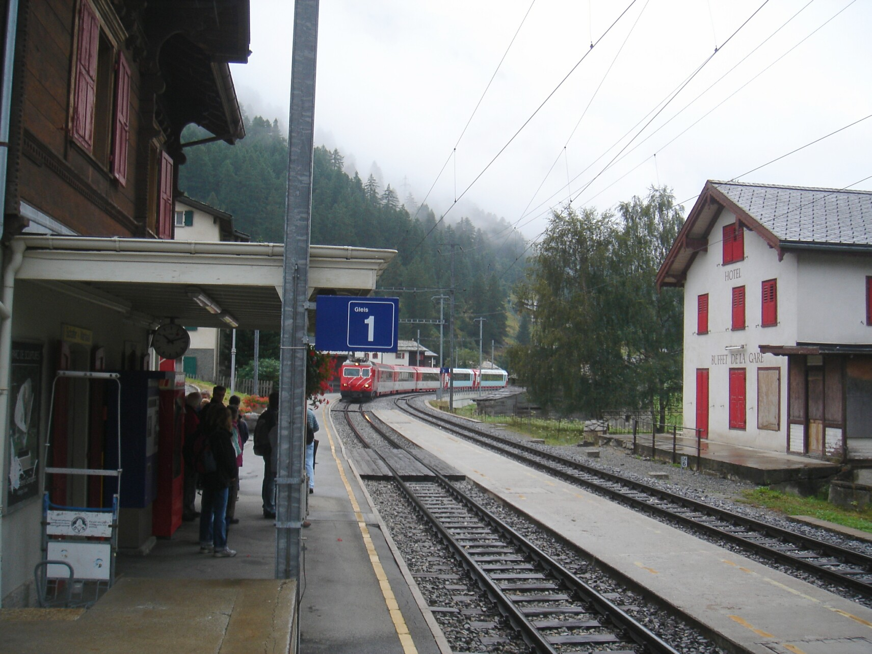 Glacier-Express 906 with Breda panoramic coaches in Randa VS. Coaches Ap 4021 and Api 4033 (ex 2013) have been refurbished with new seats and livery while As 4029, 4024 und 4027 are in use as 2nd class coaches with no other change than the class digit.